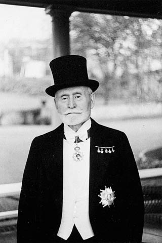 Portrait of Raoul Dandurand